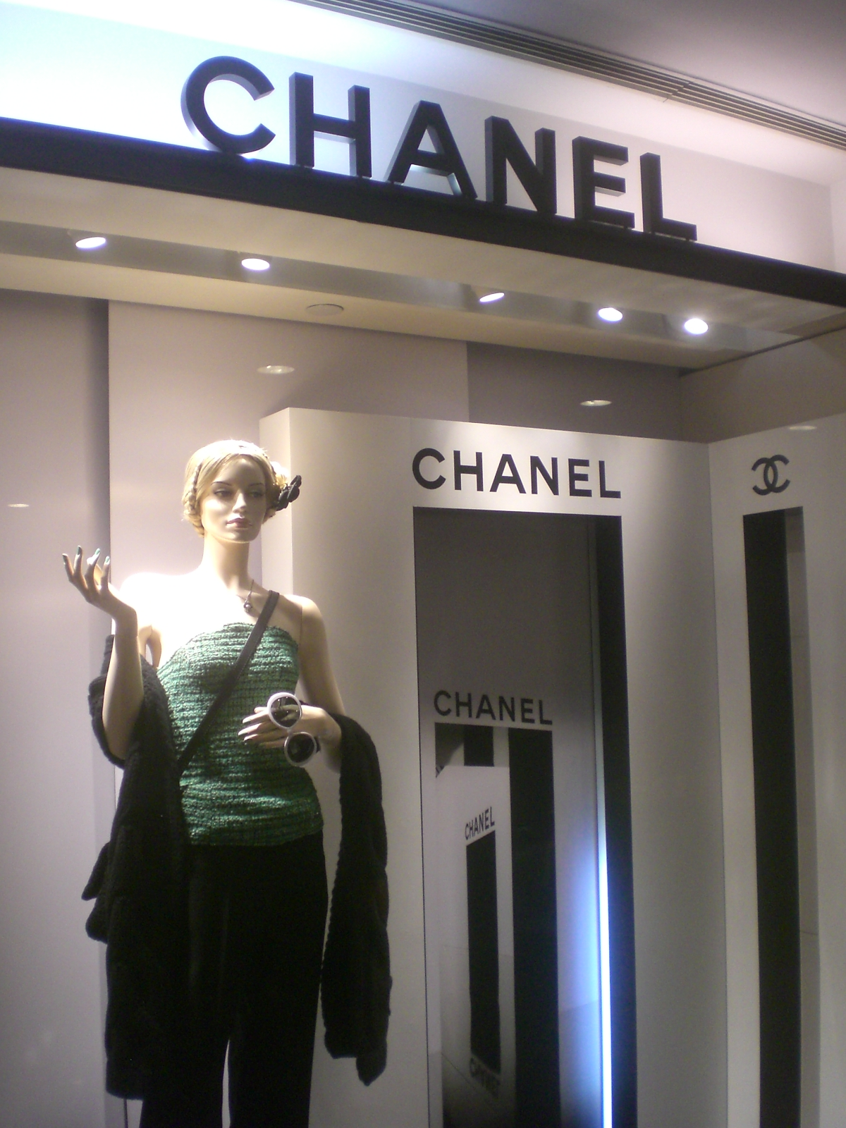 尖沙咀香港洲際酒店